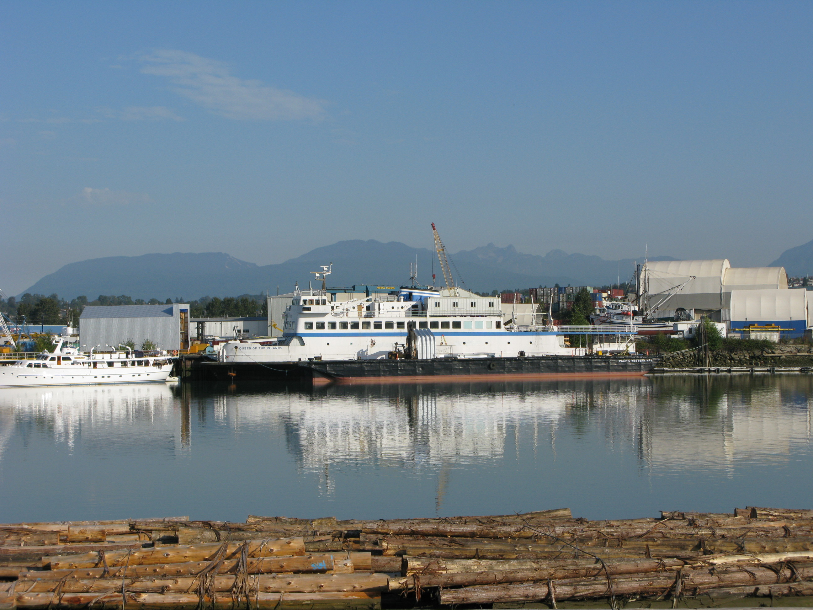 Former BC Ferries MV Queen of the Islands, Fraser River, North Arm, Mitchell Island, September 2009.